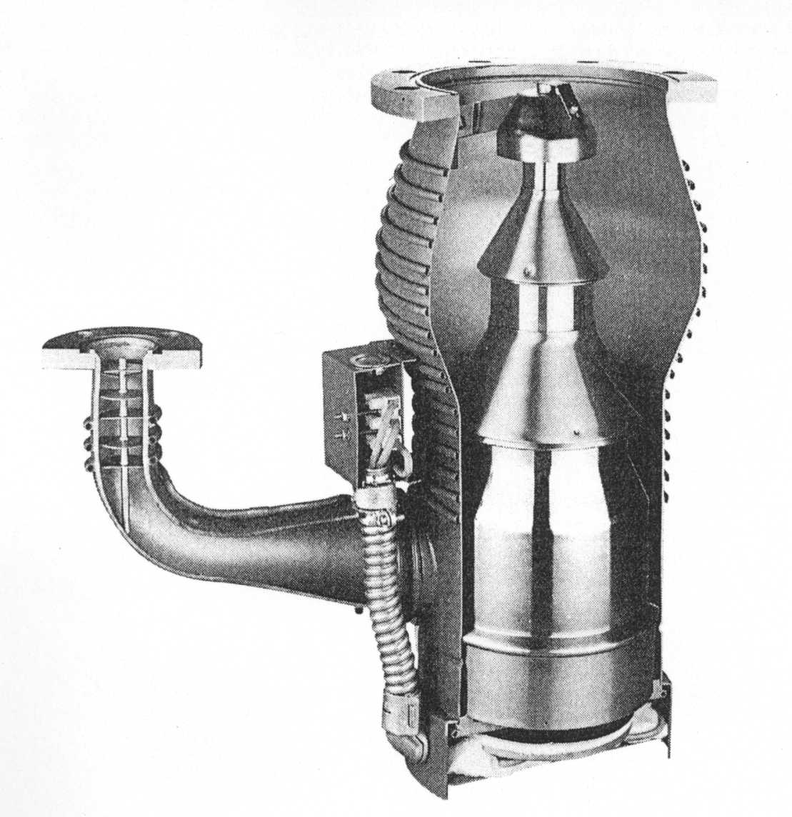 Difusion pump section